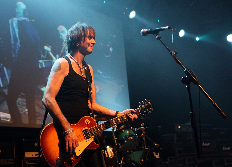 Brian "Robbo" Robertson performing at the 25th annual "Vibe for Philo" at Vicar Street 4th January 2011. The concert is held yearly, honoring Phil Lynott of Thin Lizzy which Robertson was his band mate.